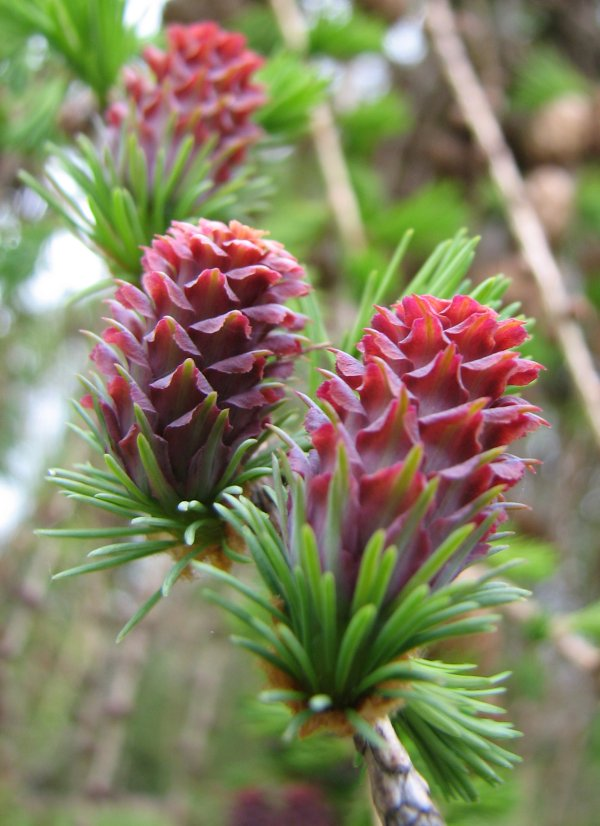 Larix decidua (European Larch). Young female cones. Taken at Kew Gardens, (London, UK)